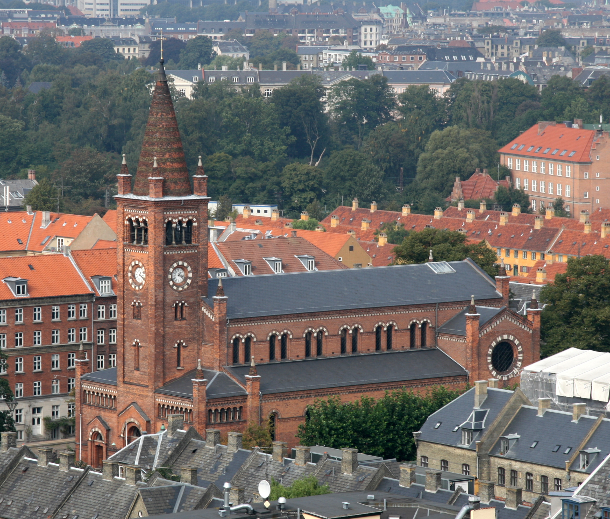 Sankt Pauls Kirke in Copenhagen, Denmark. Viewed from the top of Marmorkirken (The Marble Church).